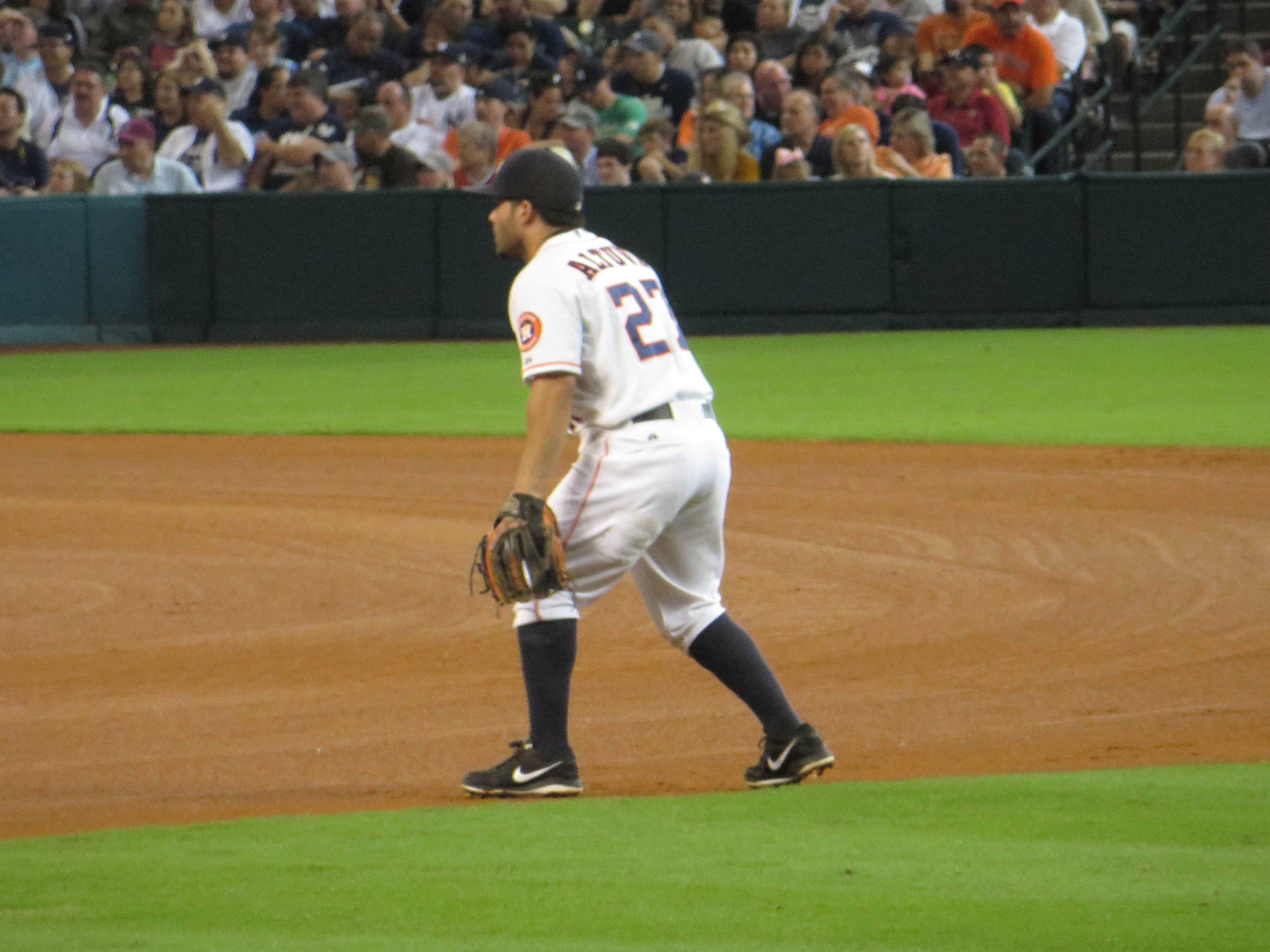 Houston Astros second baseman Jose Altuve on the field against the New York Yankees on September 29, 2013 at Minute Maid Park.